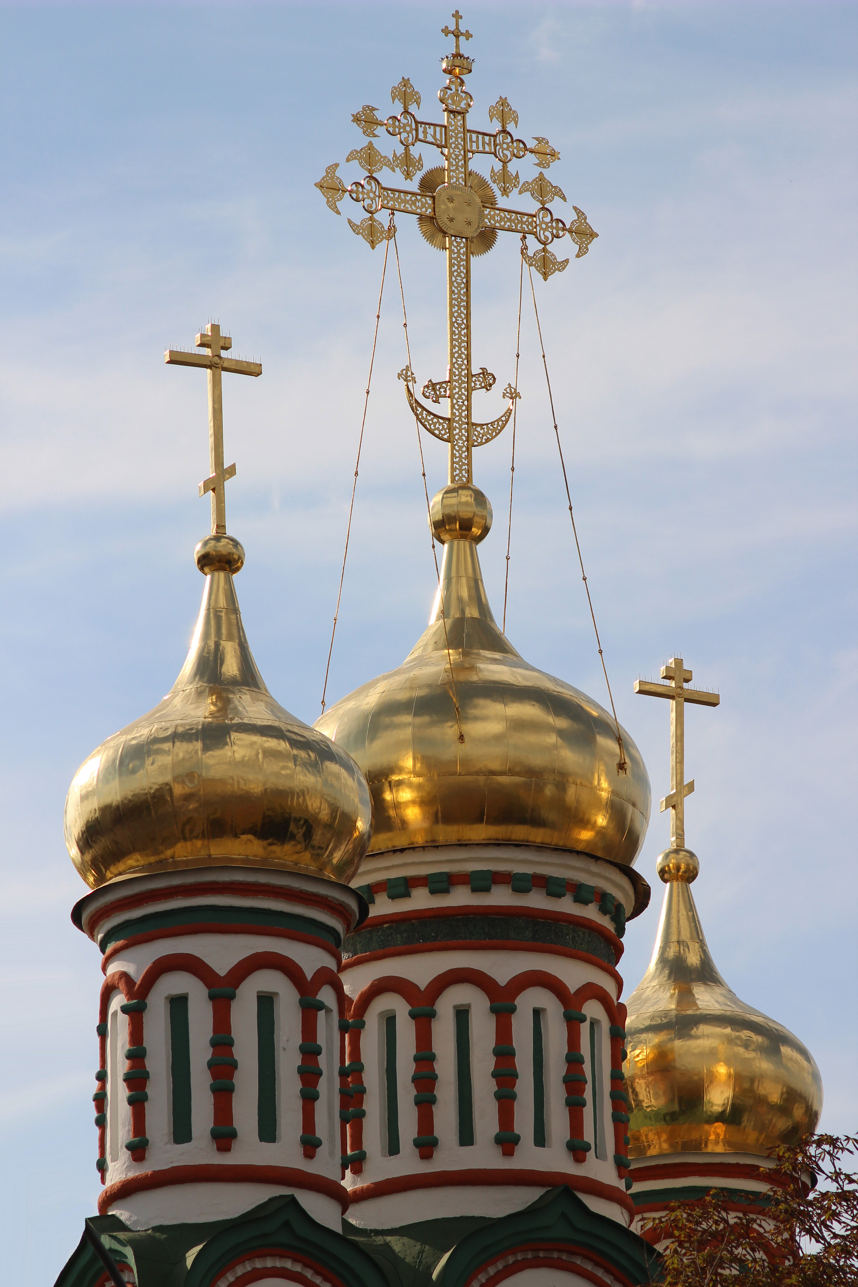 Domes of the Church of Saint Nicholas in Khamovniki, Leo Tolstoy Street, Moscow